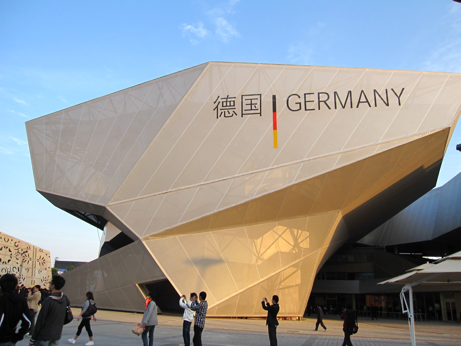 Germany Pavilion of Expo 2010